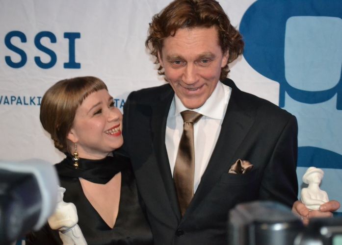 Katja Küttner and Ville Virtanen in 2010 Jussi Award.